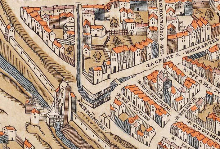 Montmartre gate on the plan of Truschet and Hoyau (1550).